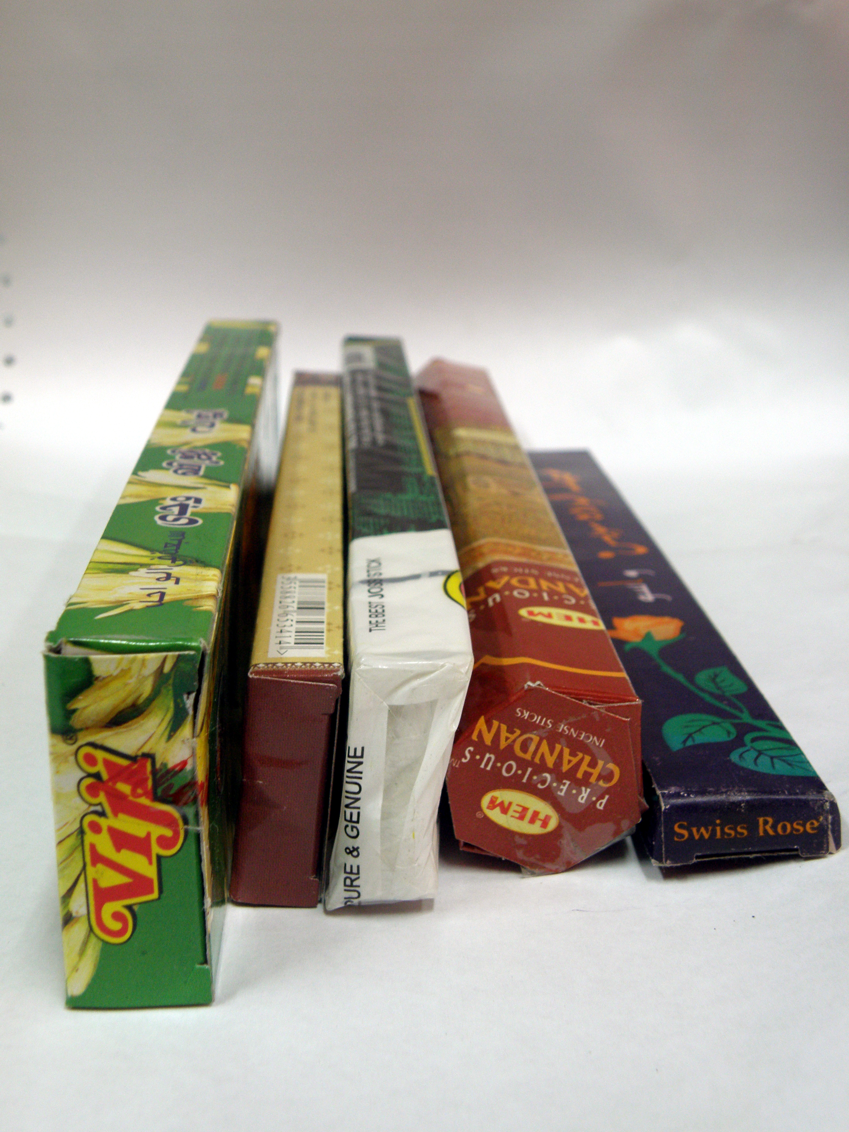 Several recurrent